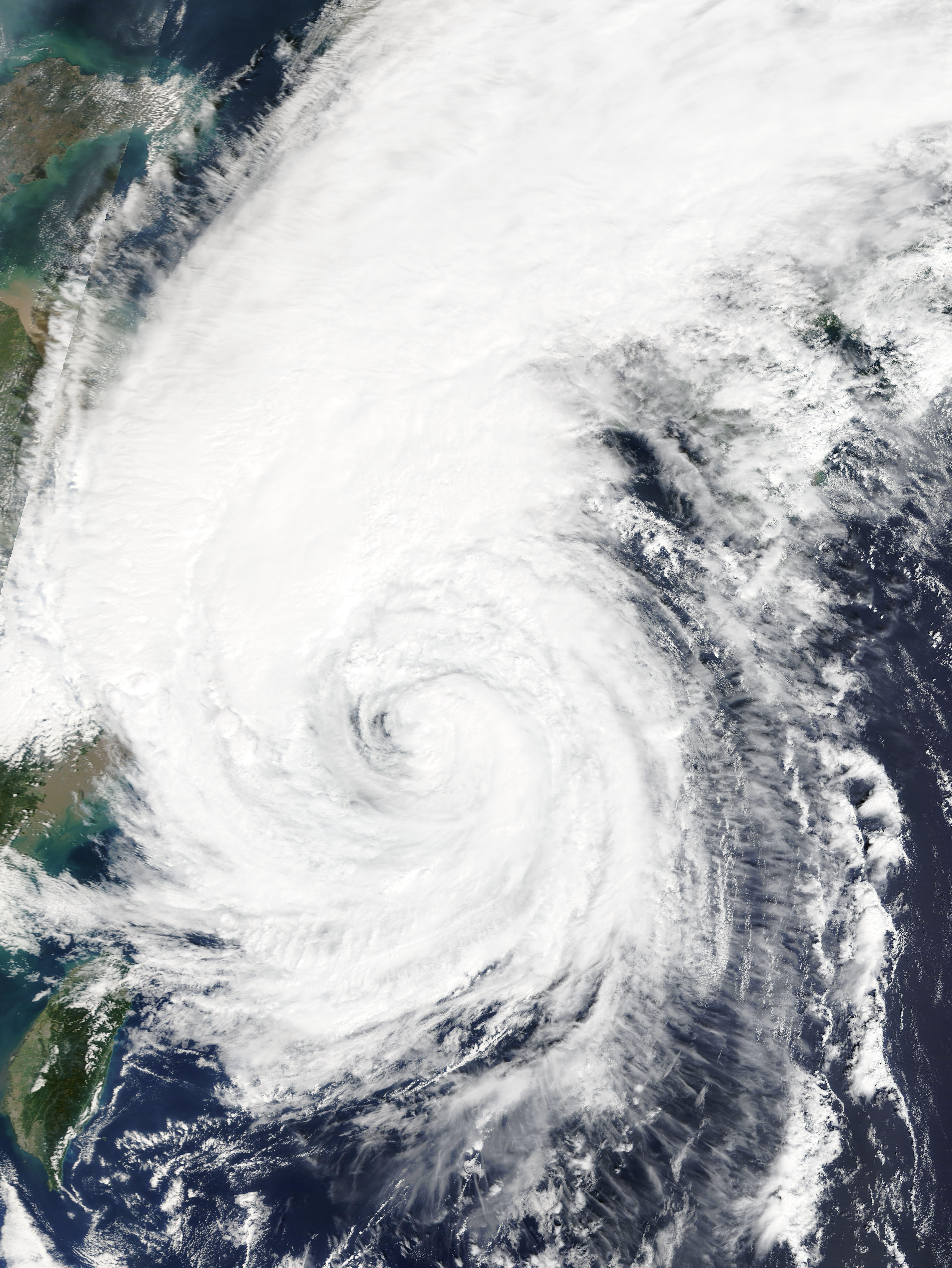 Tropical Storm Kong-rey (30W) in the East China Sea (morning overpass)